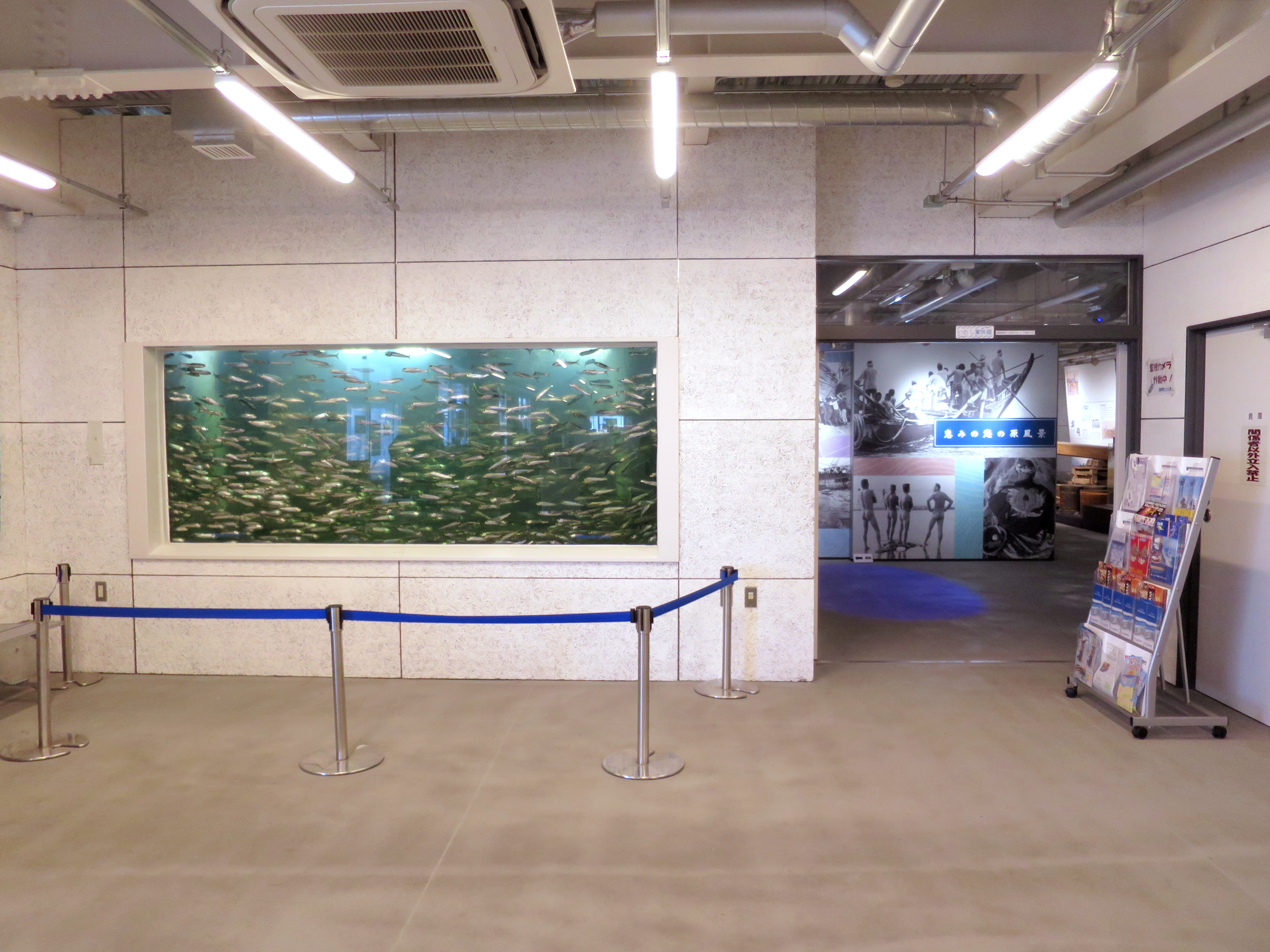 Photograph of Sardine Center, Sardine Museum entrance. address 2347-98 Kozeki, Kujukuri Town, Sanbu District, Chiba Prefecture, Japan photo date and time 14:00 July 31, 2015